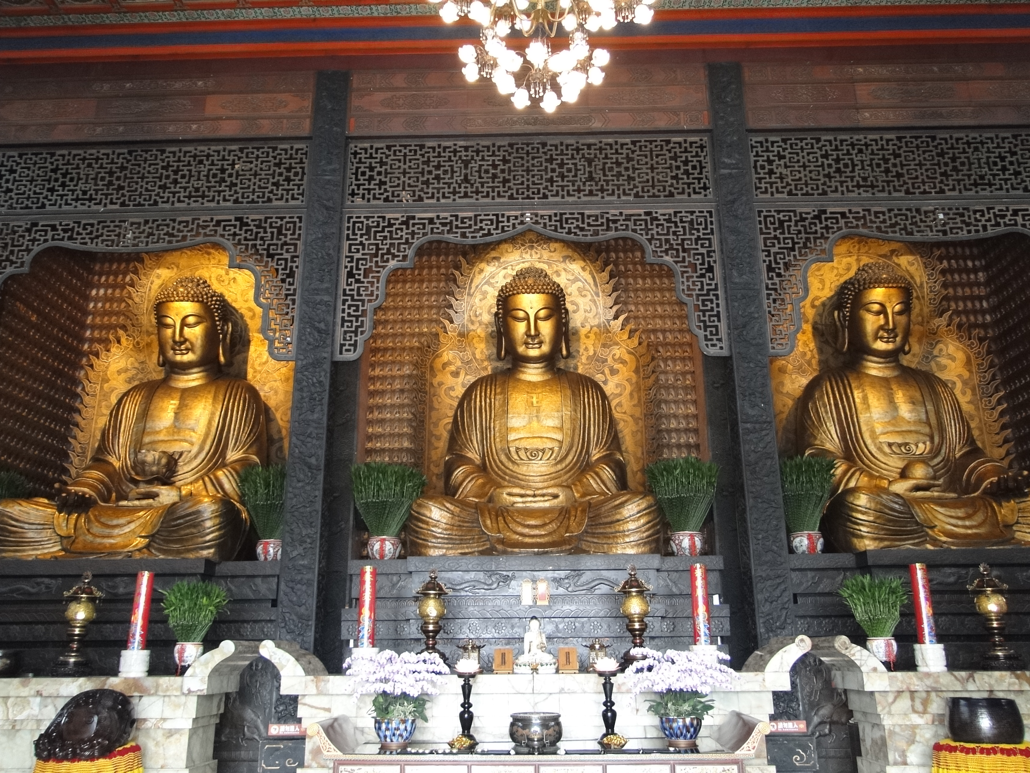 Buddha statues inside the main sanctuary of Fo Guang Shan Monastery, Taiwan